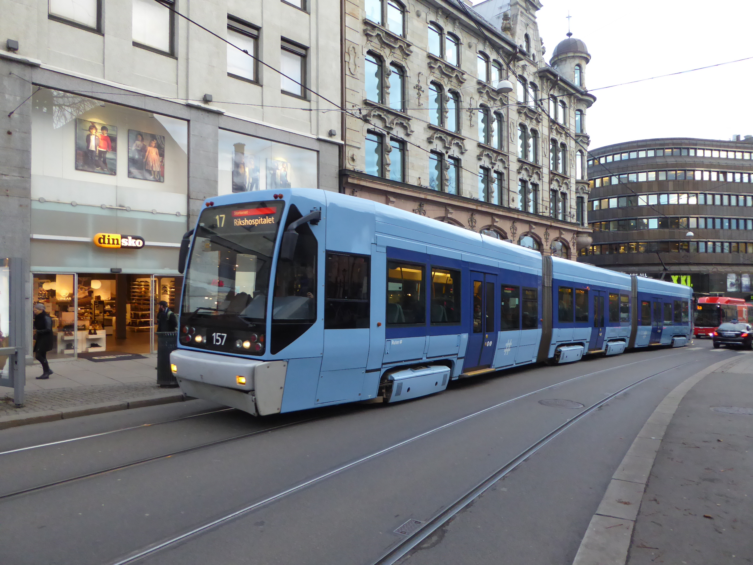 Tram line 17 on Kirkeristen in Oslo.